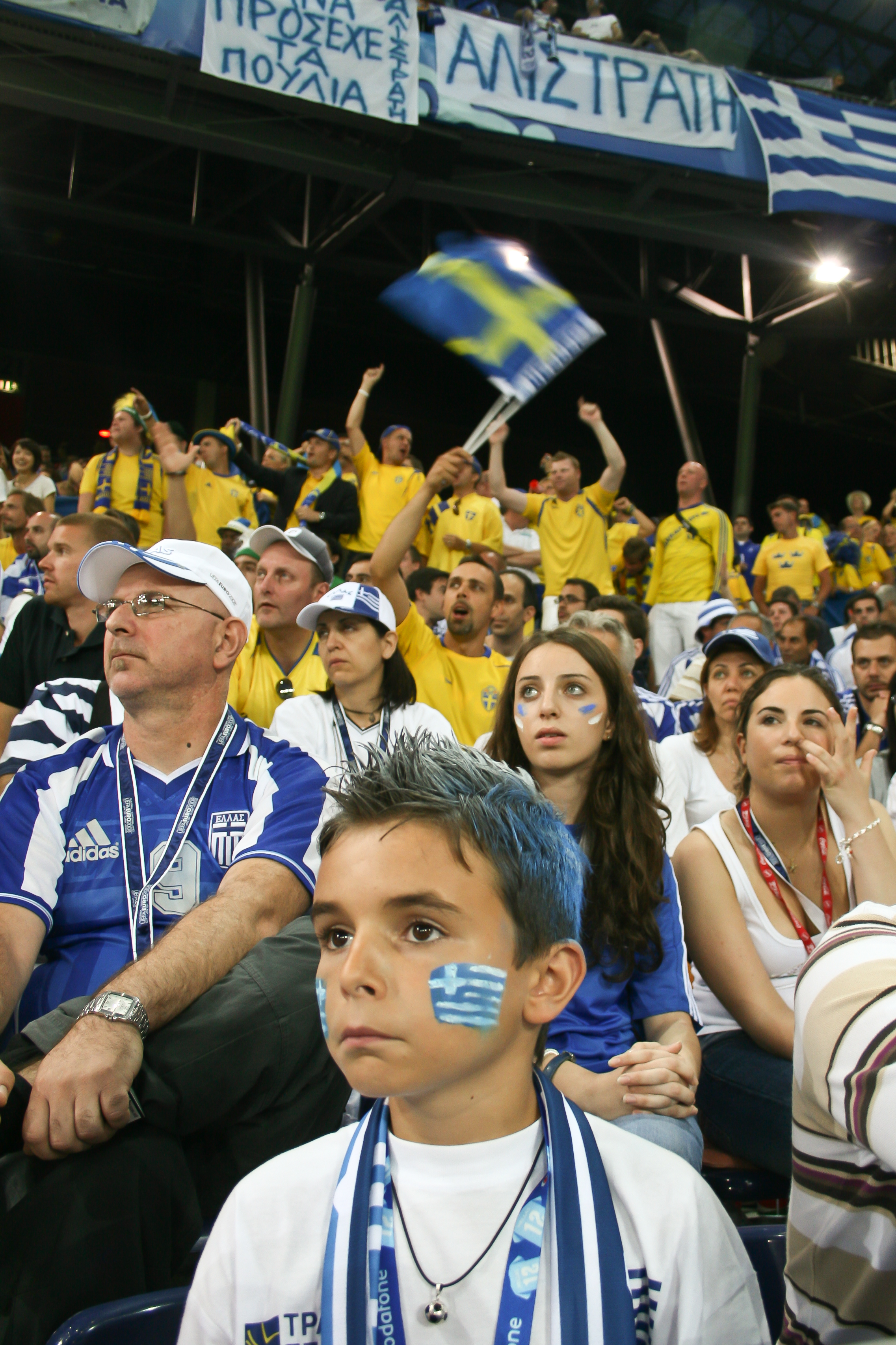 Greece vs Sweden in Salzburg during UEFA Euro 2008